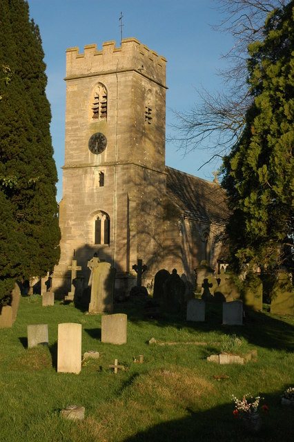 West tower of St James the Great parish church, Saul, Gloucestershire, seen from the southwest